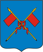 Coat of arms of Sortavala (1788)